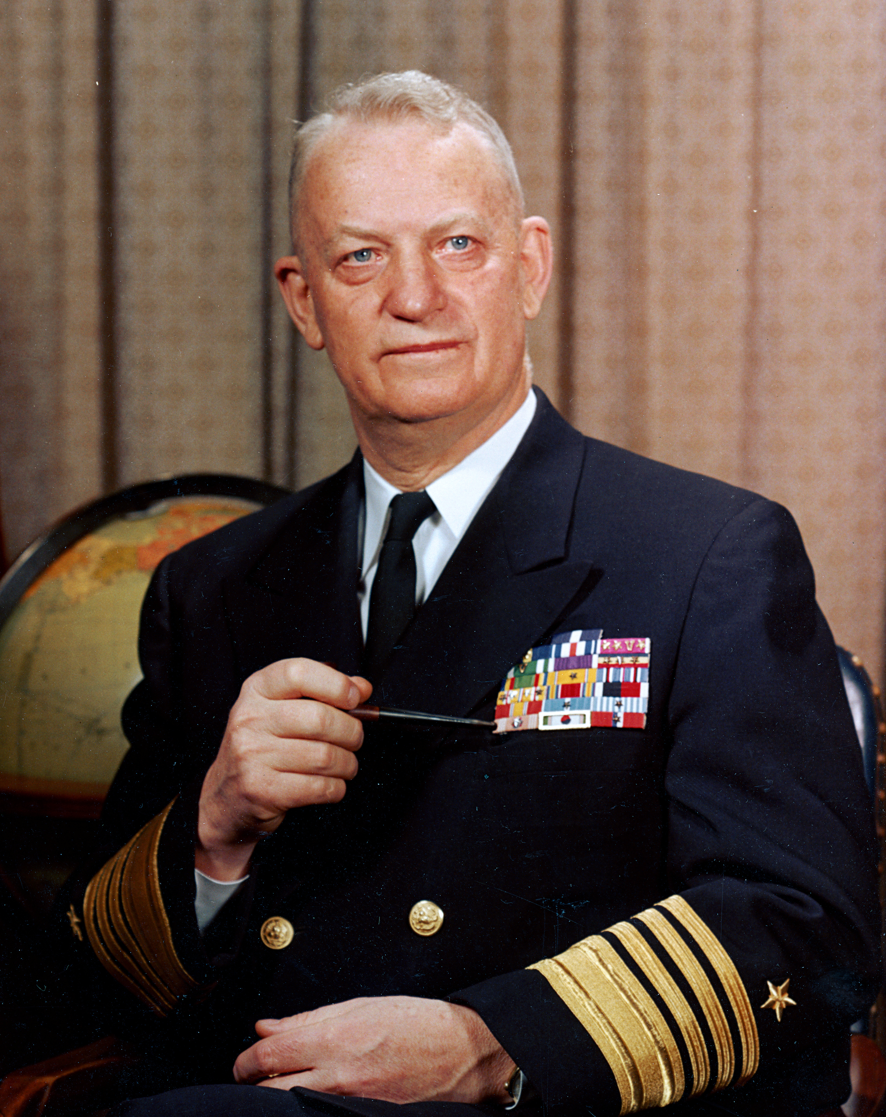 Admiral Arleigh Burke (1901 -1996), Chief of Naval Operations. Portrait photograph, dated 15 December 1958. Official U.S. Navy Photograph, now in the collections of the National Archives.